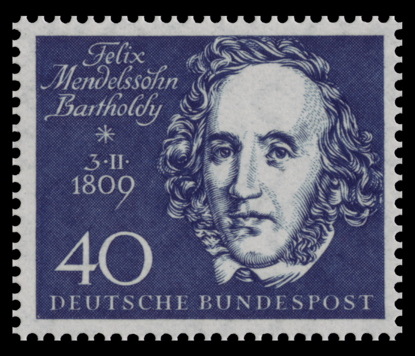 Induction of the Beethoven Hall in Bonn Graphics by Kern Ausgabepreis: 40 Pfennig First Day of Issue / Erstausgabetag: 8. September 1959 Michel-Katalog-Nr: 319